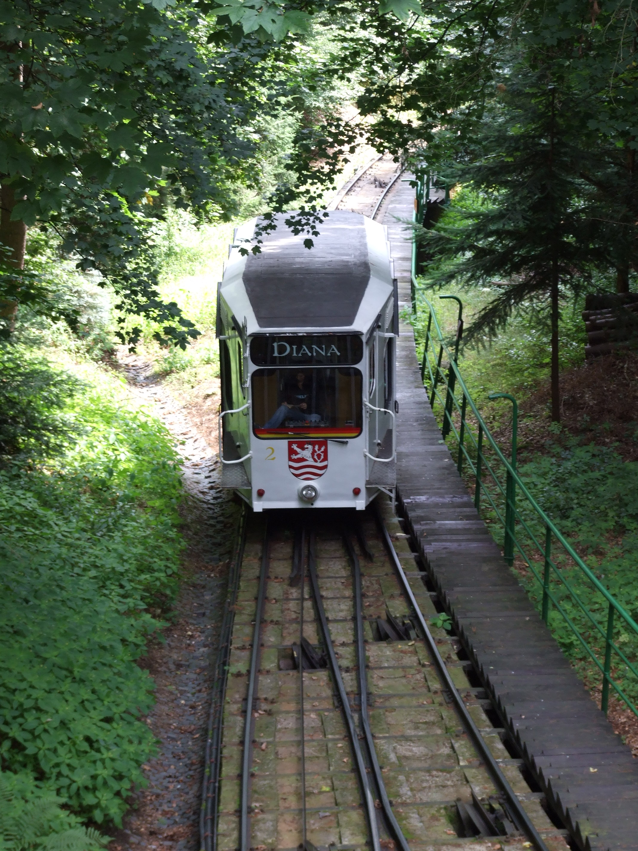 Diana funicular in Karlovy Varyhelp